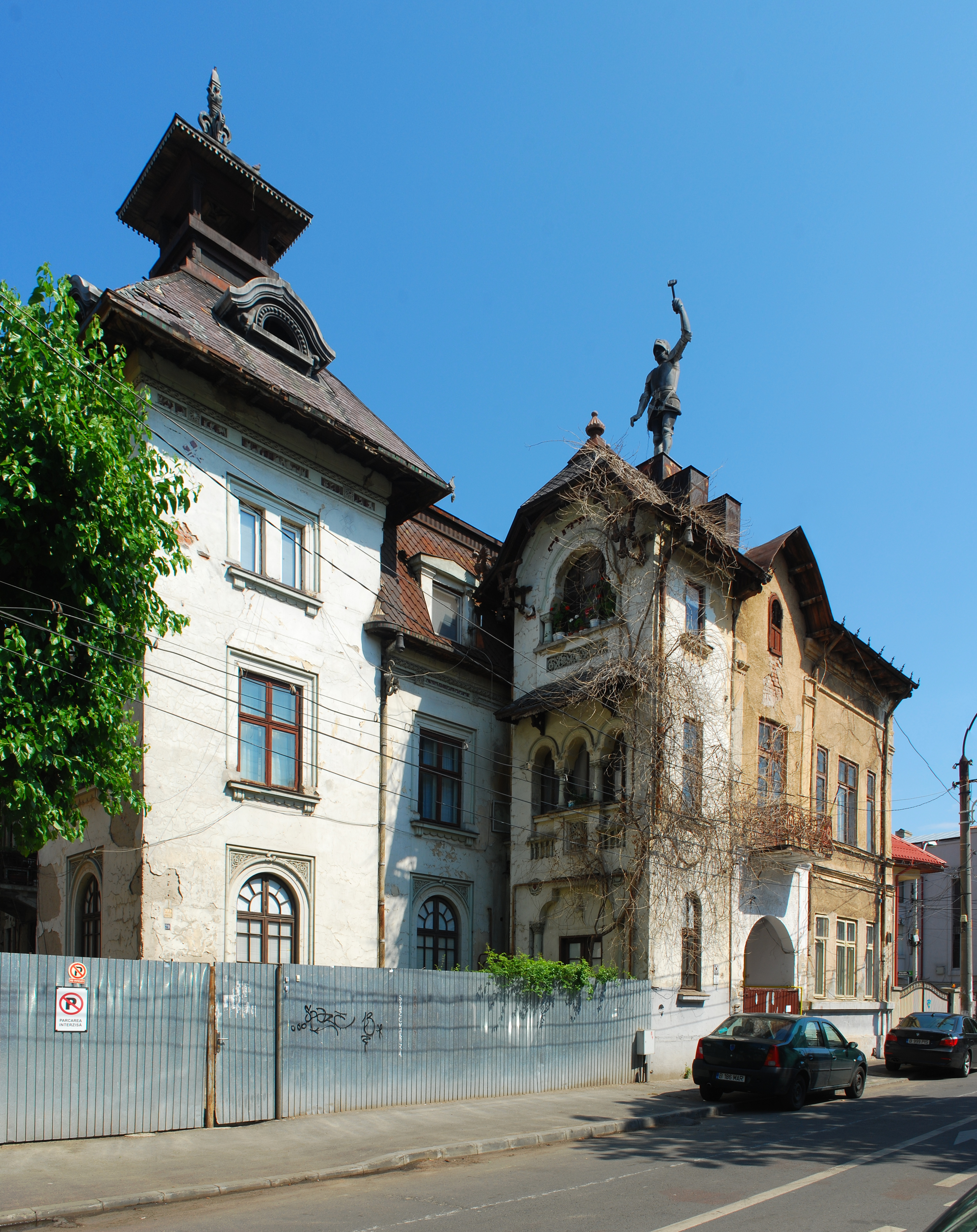 Alexandru Dimitriu house in Bucharest, RomaniaRomână: Casa Alexandru Dimitriu din București, România